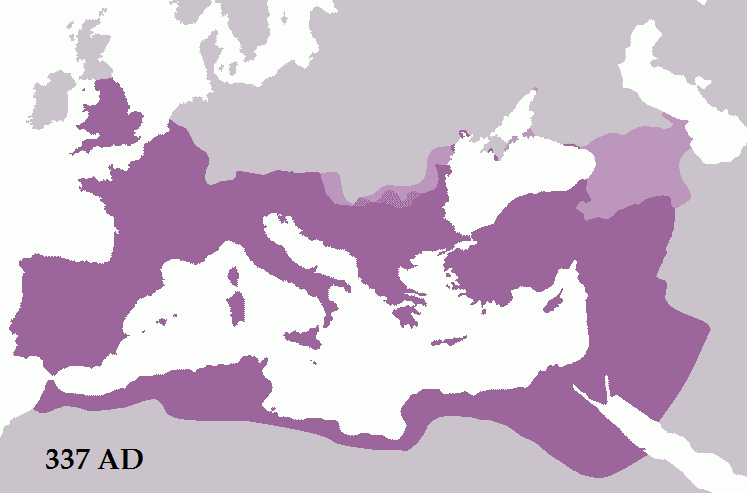 The Roman Empire in 337 AD after the conquests of emperor Constantine the Great. Roman territory is dark purple, Constantine's conquests in Dacia are shaded dark purple, and Roman dependencies are light purple. There are four areas of Roman dependencies: the Iazyges (center left), the Tervingi (center, above shaded purple), the Bosporan Kingdom (top middle) and Armenia, Colchis, Iberia, and Albania (top right).